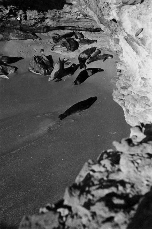 One of the first pictures of the monk seal colony found by Eugenio Morales Agacino on Ras Nouadhibou, Western Sahara (December 26, 1945).